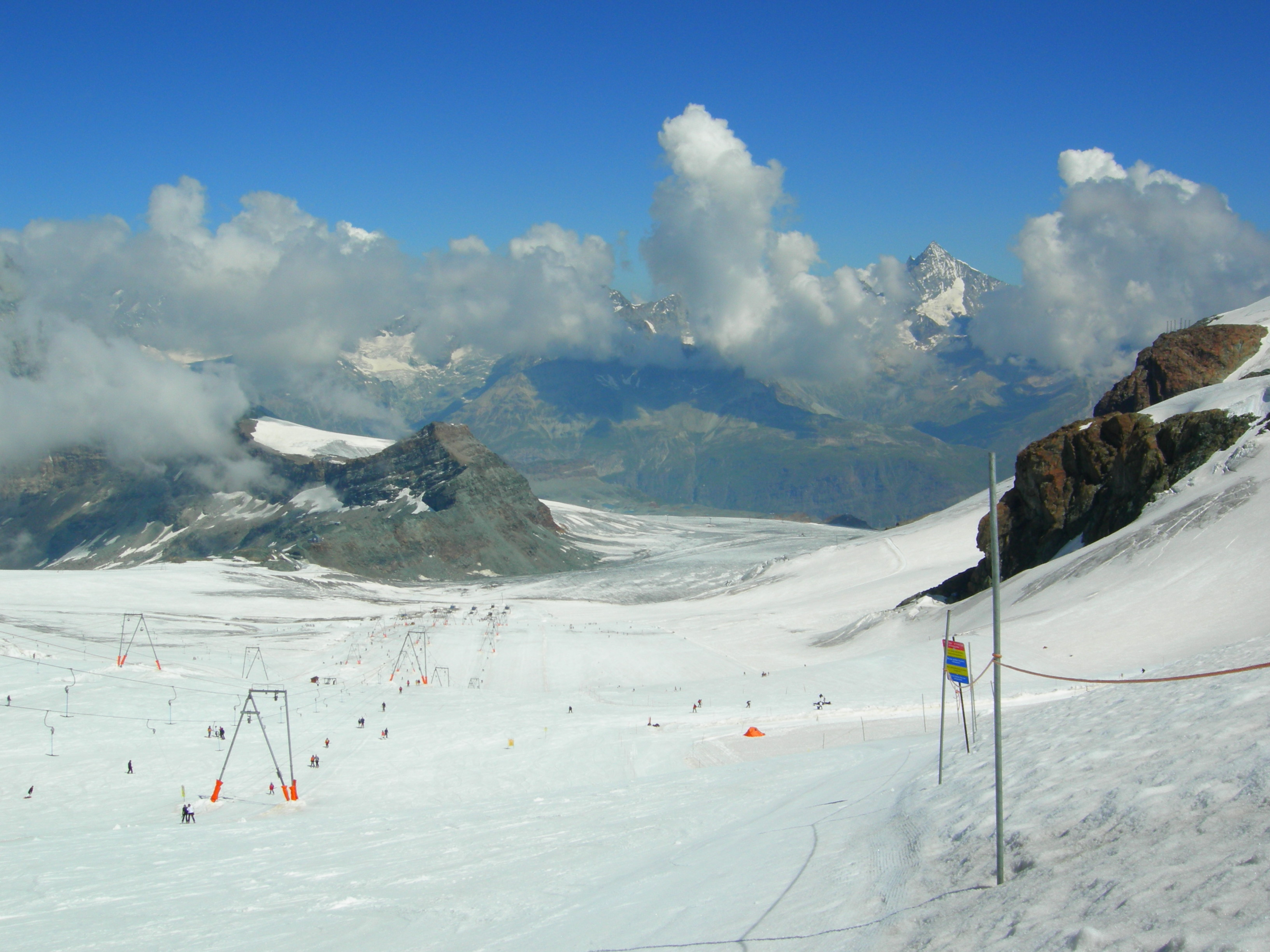 Summer skiing on the Theodulgletscher in Zermatt in July 2006.